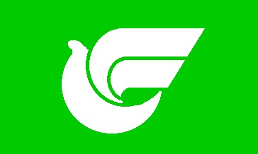 Flag of Nishimeya Aomori